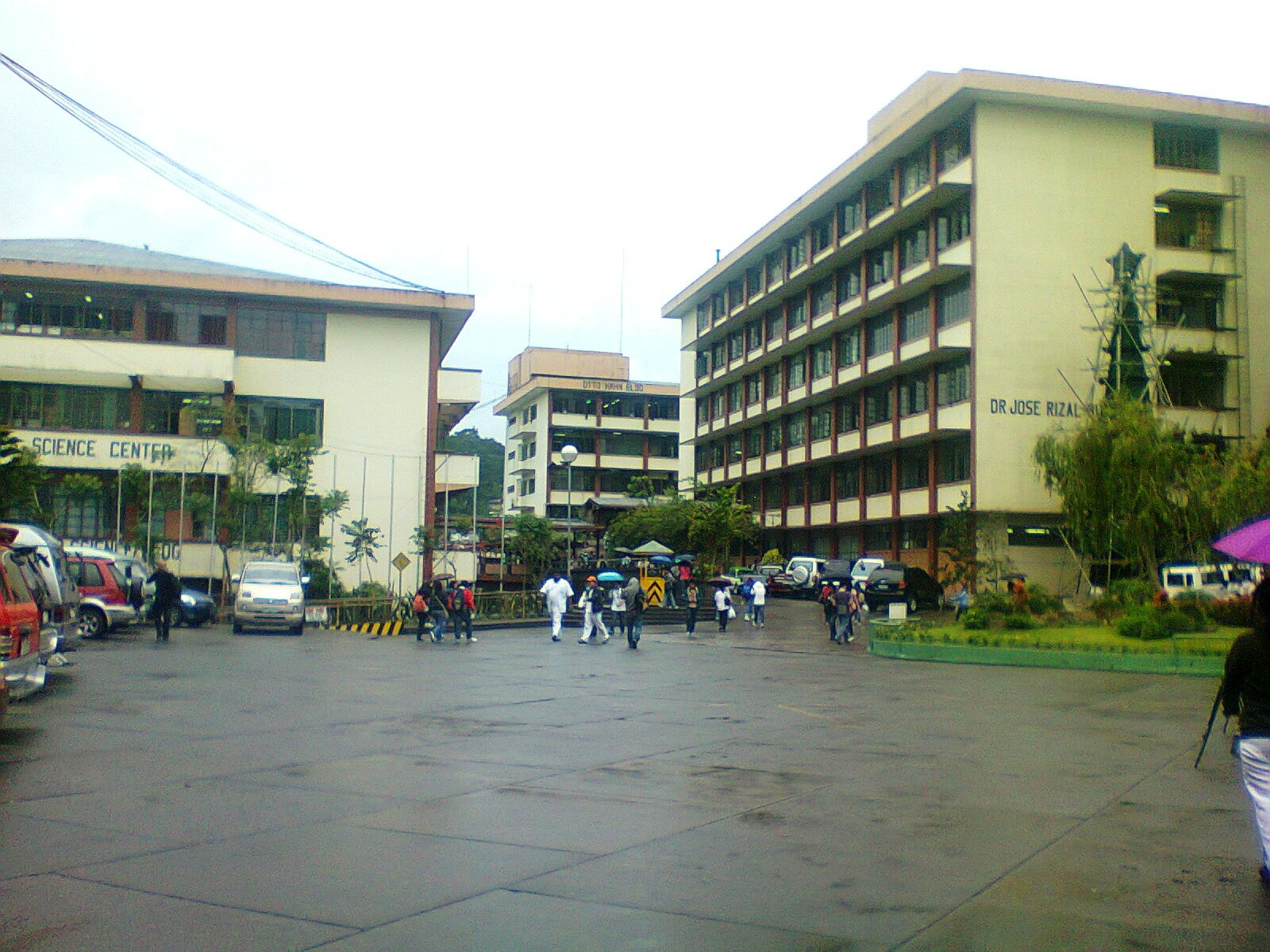 Dr. Jose P. Rizal building (right), Konrad Adenauer building (left), and Otto Hahn building (center, back) - Saint Louis University